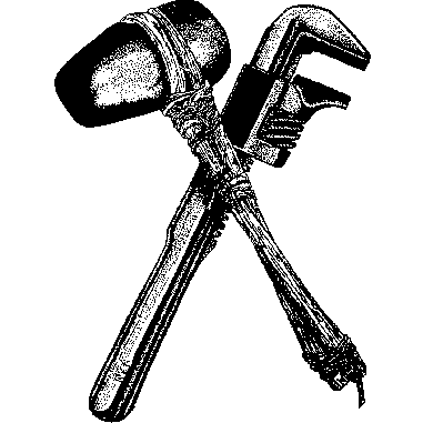 Earth First logo: a monkey wrench and a stone tomahawk. Modified by "Che y Marijuana", taken from one of Earth First's webpages.